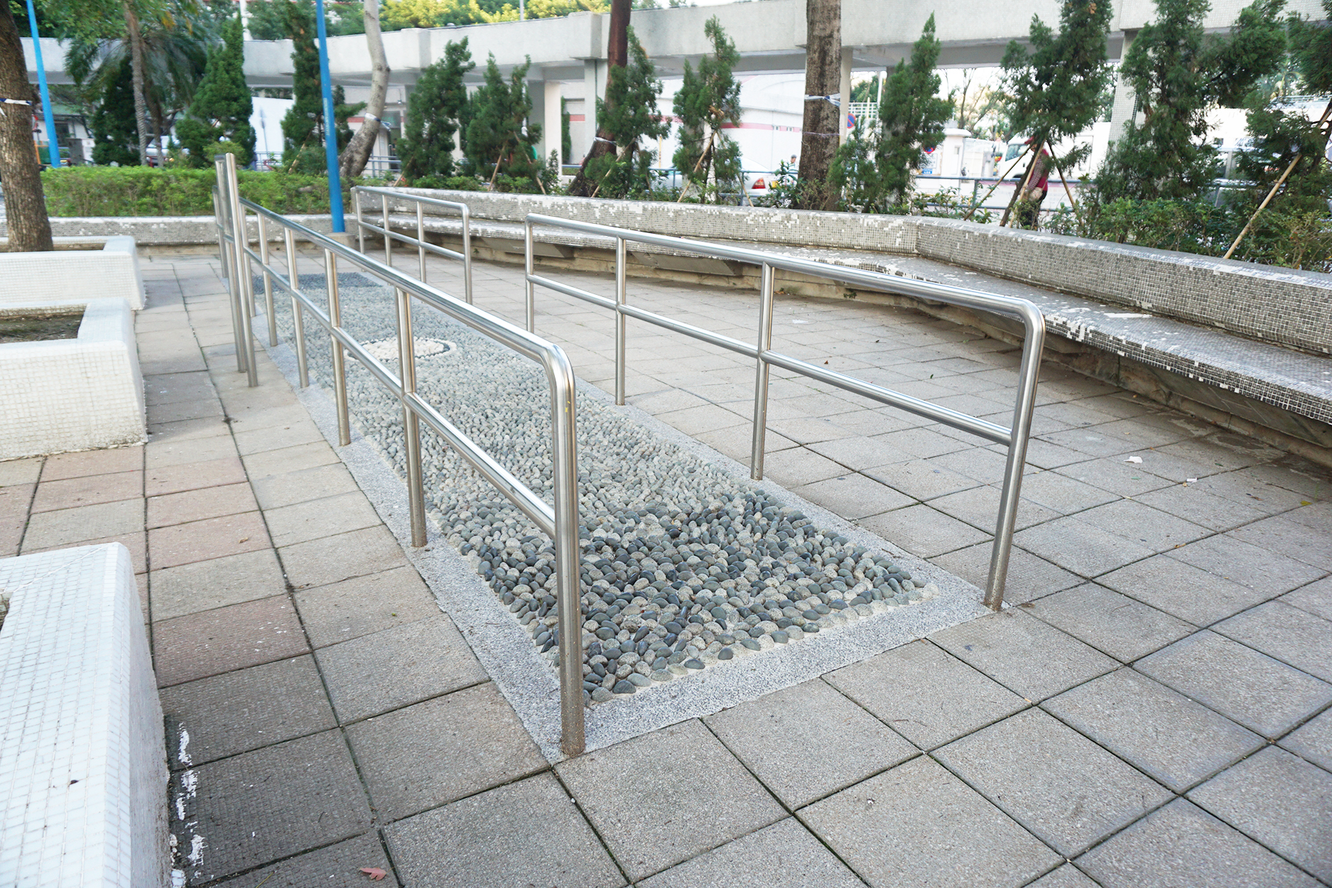 Tin Ping Estate in Sheung Shui, Hong Kong.